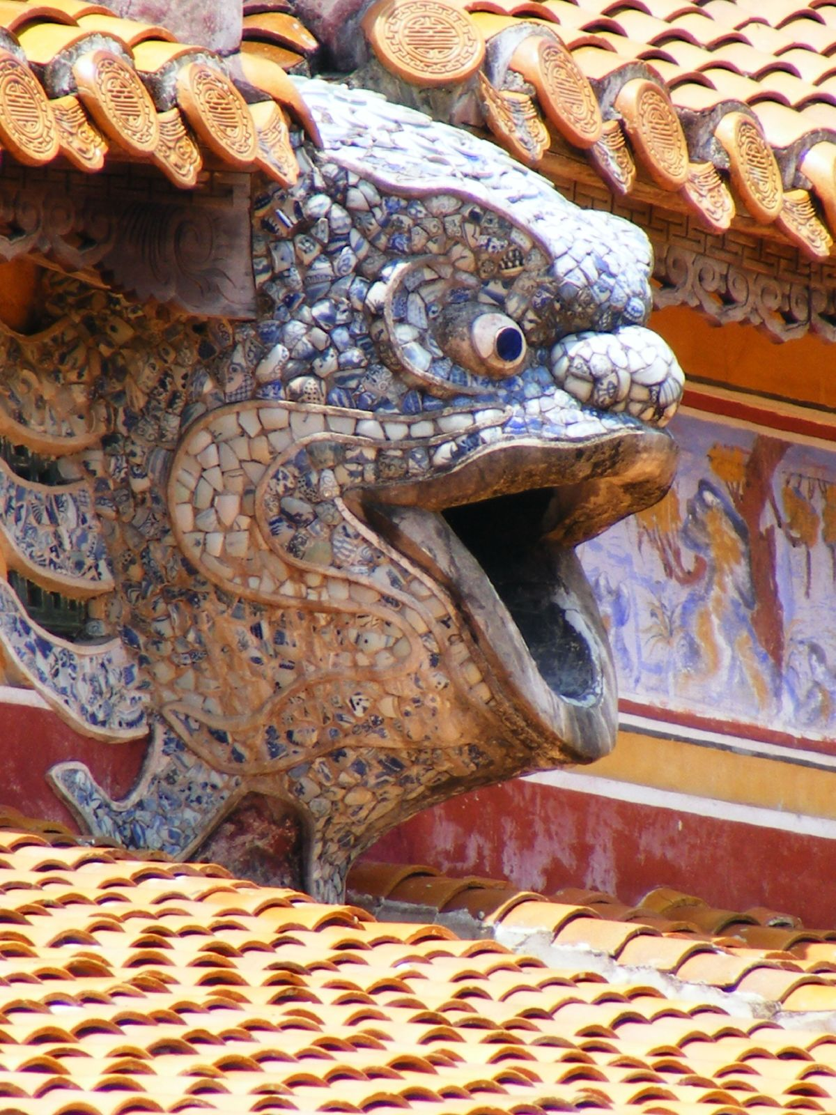 Downspout detail, imperial enclosure, Hue